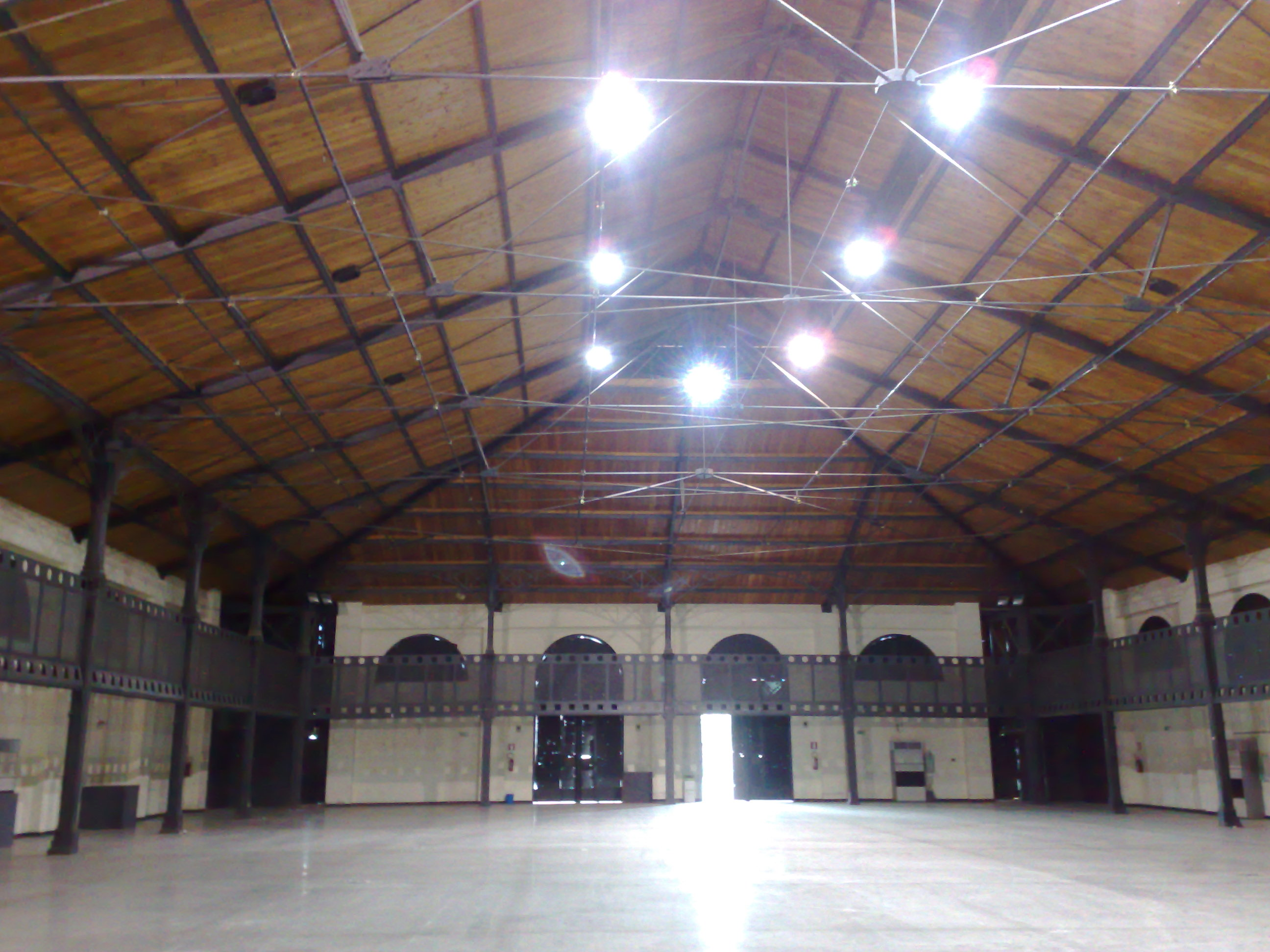 Old train depot in Sant'Erasmo(Palermo) Ex deposito dei treni di Sant'Erasmo,Palermo (ora sede di mostre)